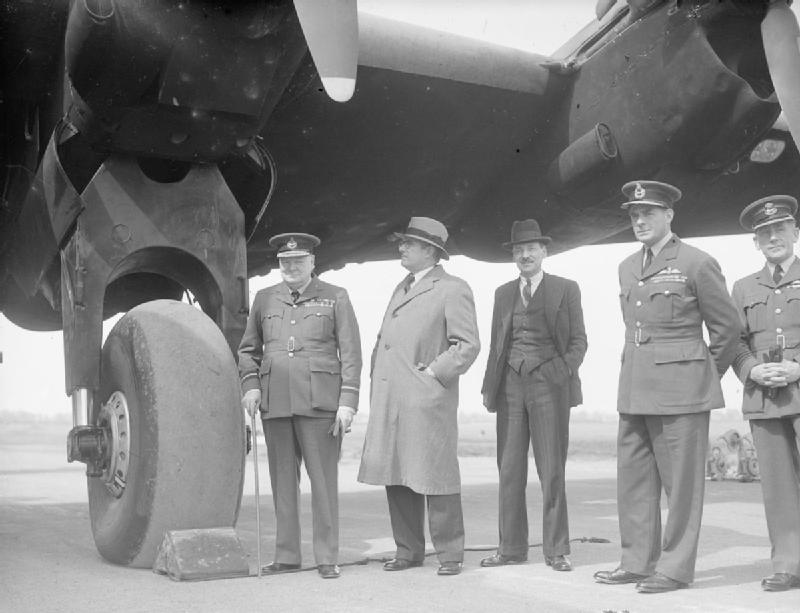 Royal Air Force 1939-1945- Bomber Command Winston Churchill, in the uniform of an Air Commodore, with Dr H V Evatt (Australian Minister for External Affairs), Clement Attlee (Deputy Prime Minister) and Air Vice-Marshal C R Carr (AOC No 4 Group) during a visit to a Yorkshire-based Halifax squadron on 15 May 1942.